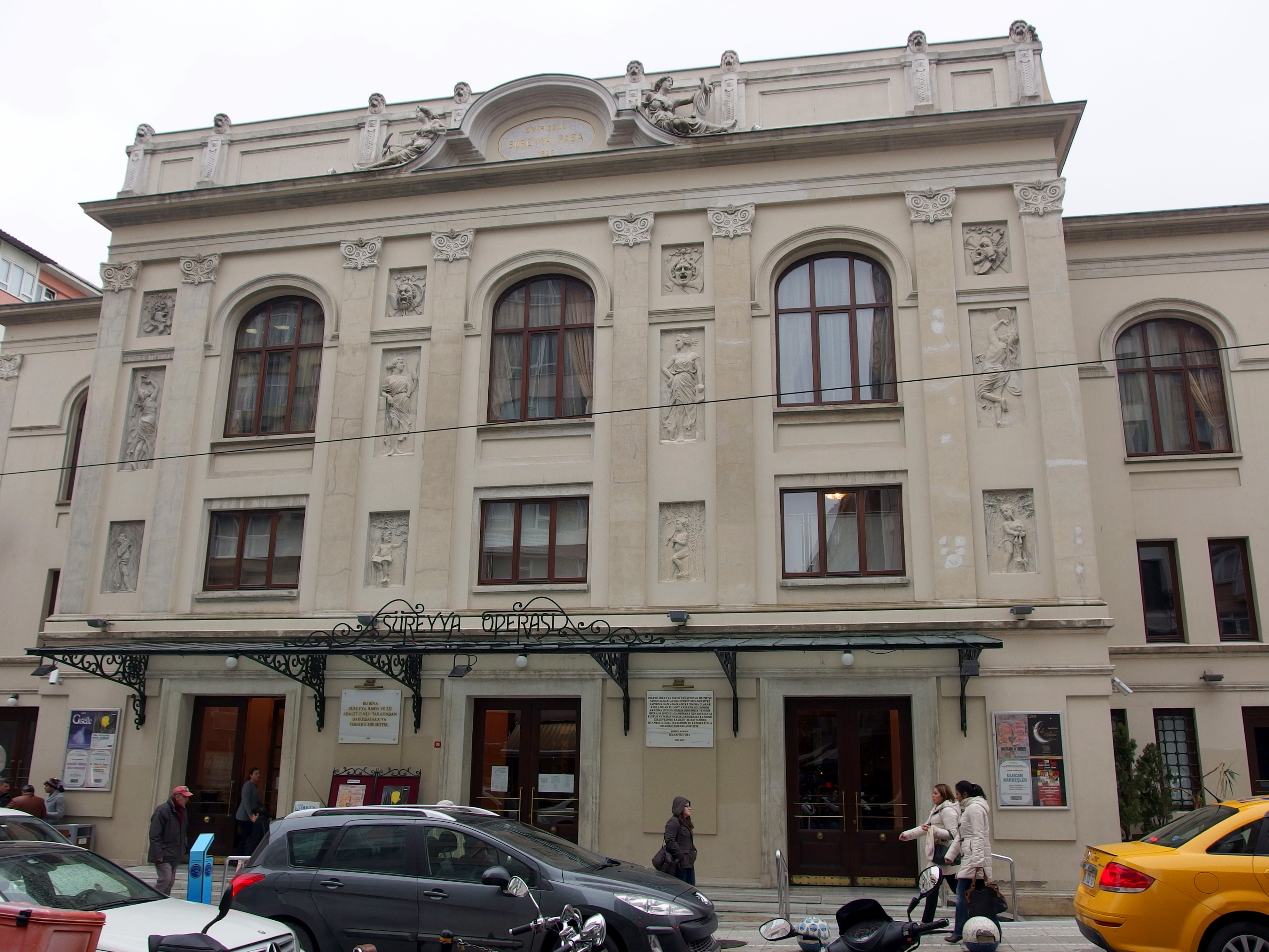 2013-12-07 in Istanbul.